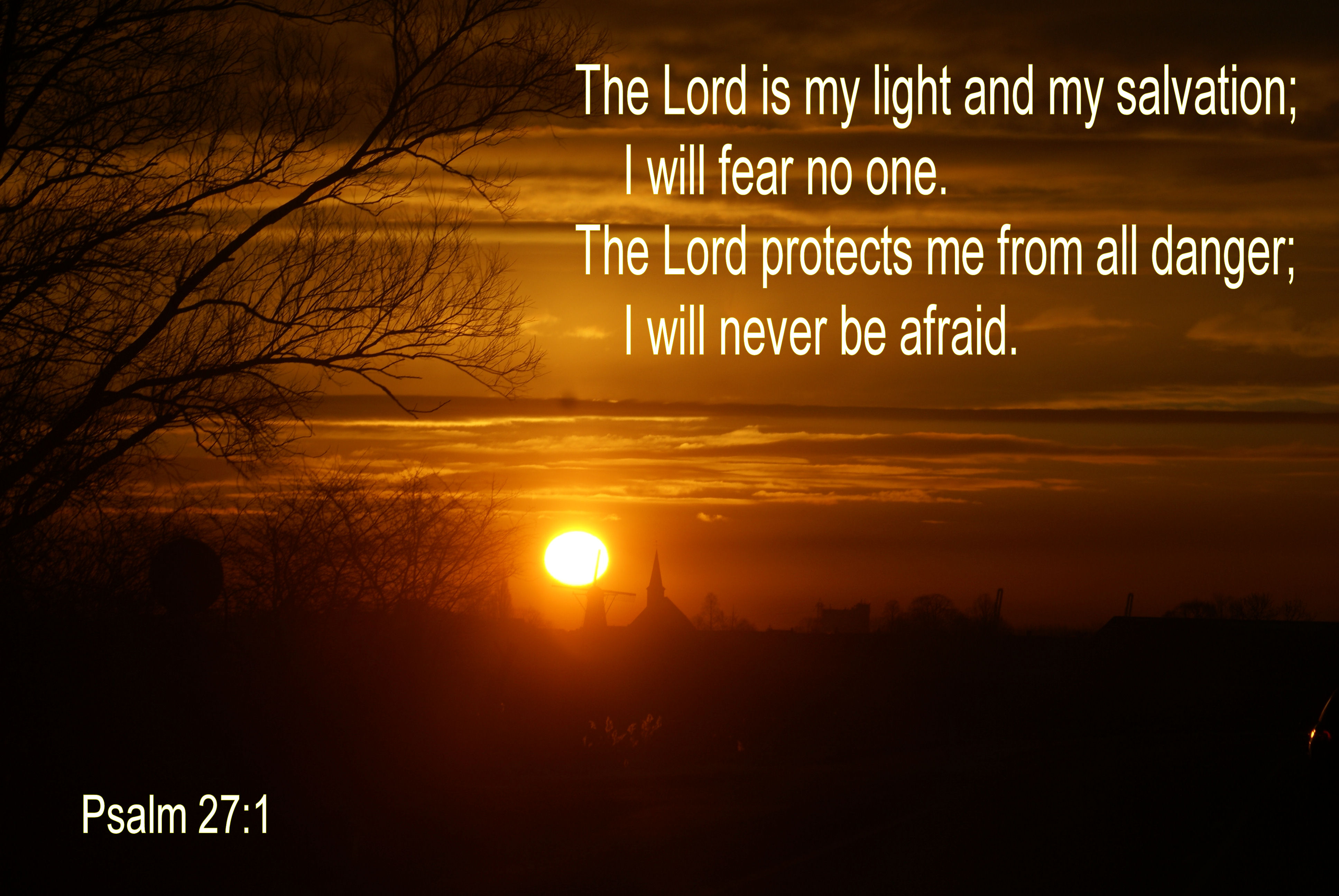 Psalm 27:1 poster